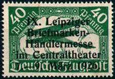 Private German publicity overprint for IX Leipziger Briefmarken-Handlermesse, 40 pfennigs, 1926